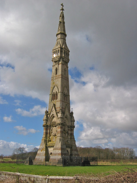 Sir Tatton Sykes's Monument, north-west of Garton on the Wolds, East Riding of Yorkshire, England.The monument is situated at the crossing of a green lane, minor road and the B1252.